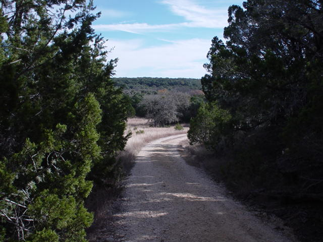 Near Boerne, Texas